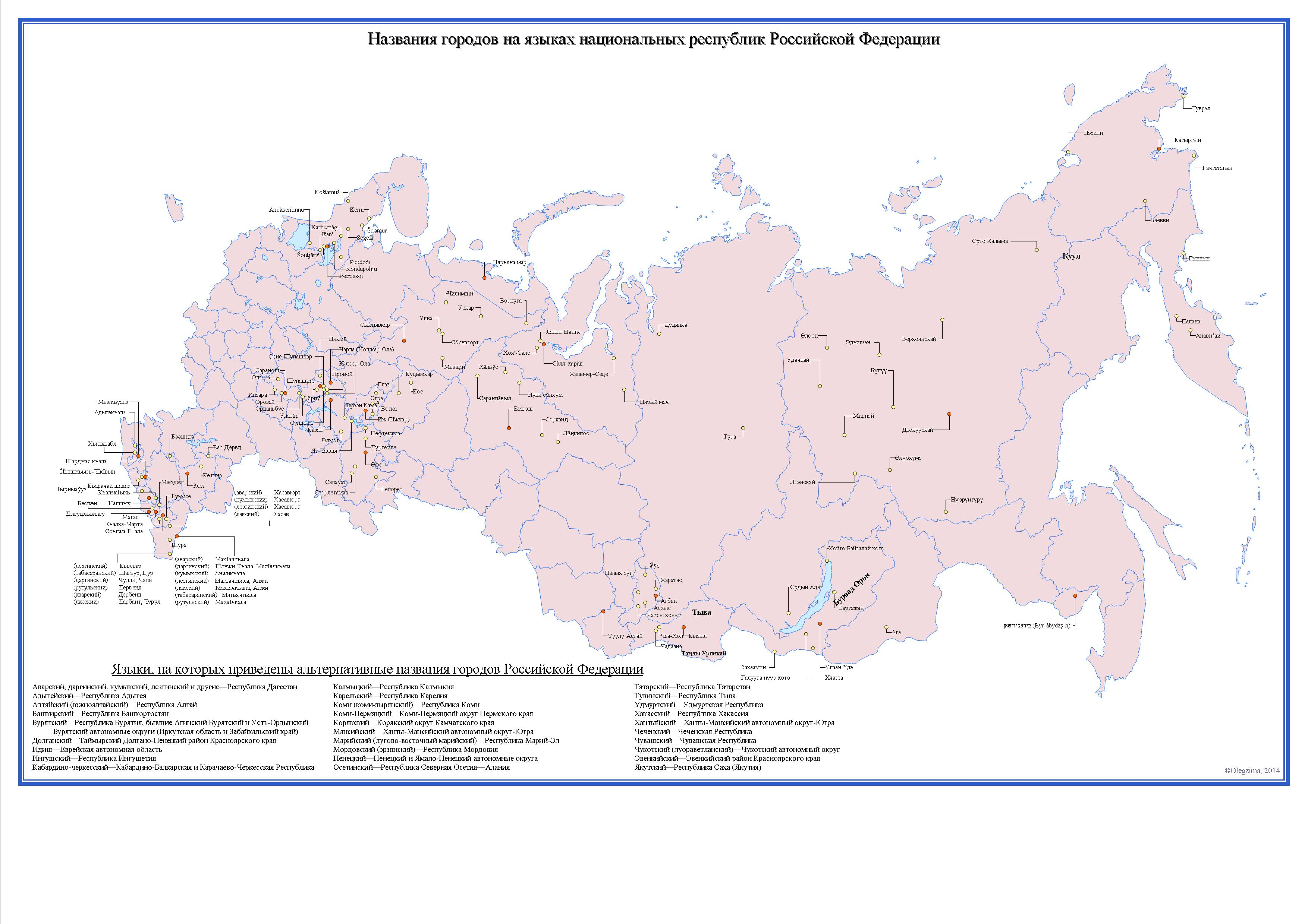 City names in the languages of the national republics of the Russian Federation